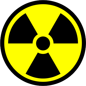 Radiation warning symbol